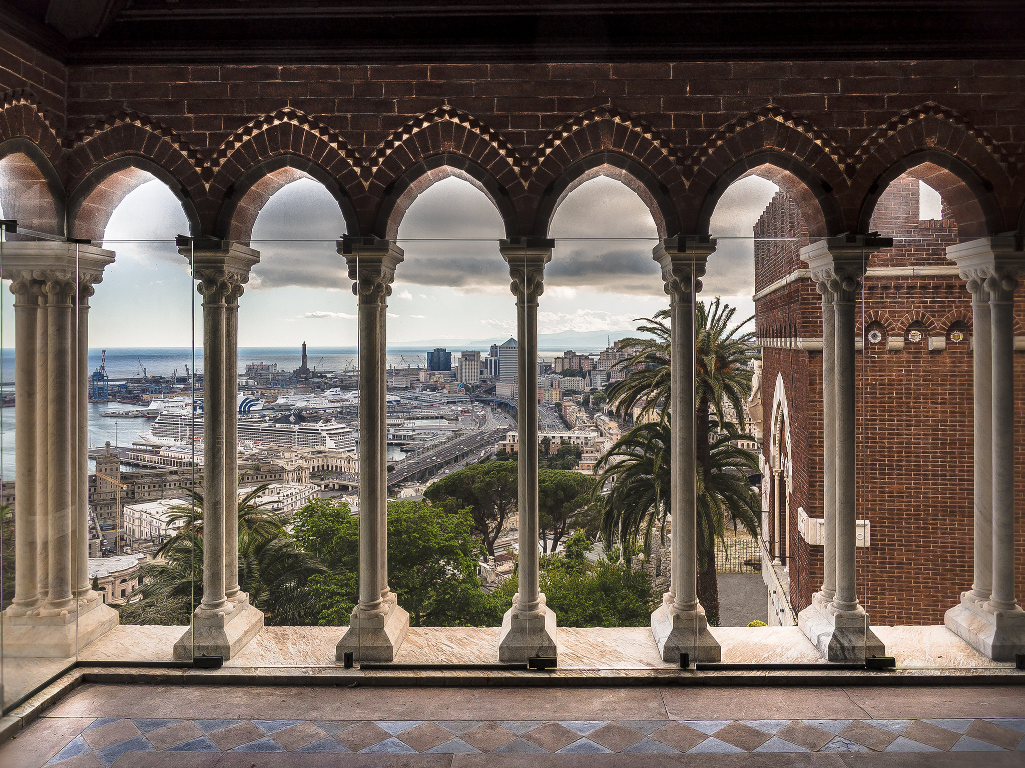 Albertis Castle and view of the city of Genoa This is a photo of a monument which is part of cultural heritage of Italy.